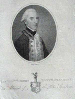 Portrait of Sir Henry Edwyn Stanhope, 1st Baronet